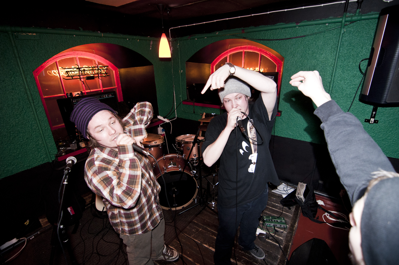 Are (left) and Stepa (right) performing at the bar Rytmikellari 5. March 2011 in Raahe Finland